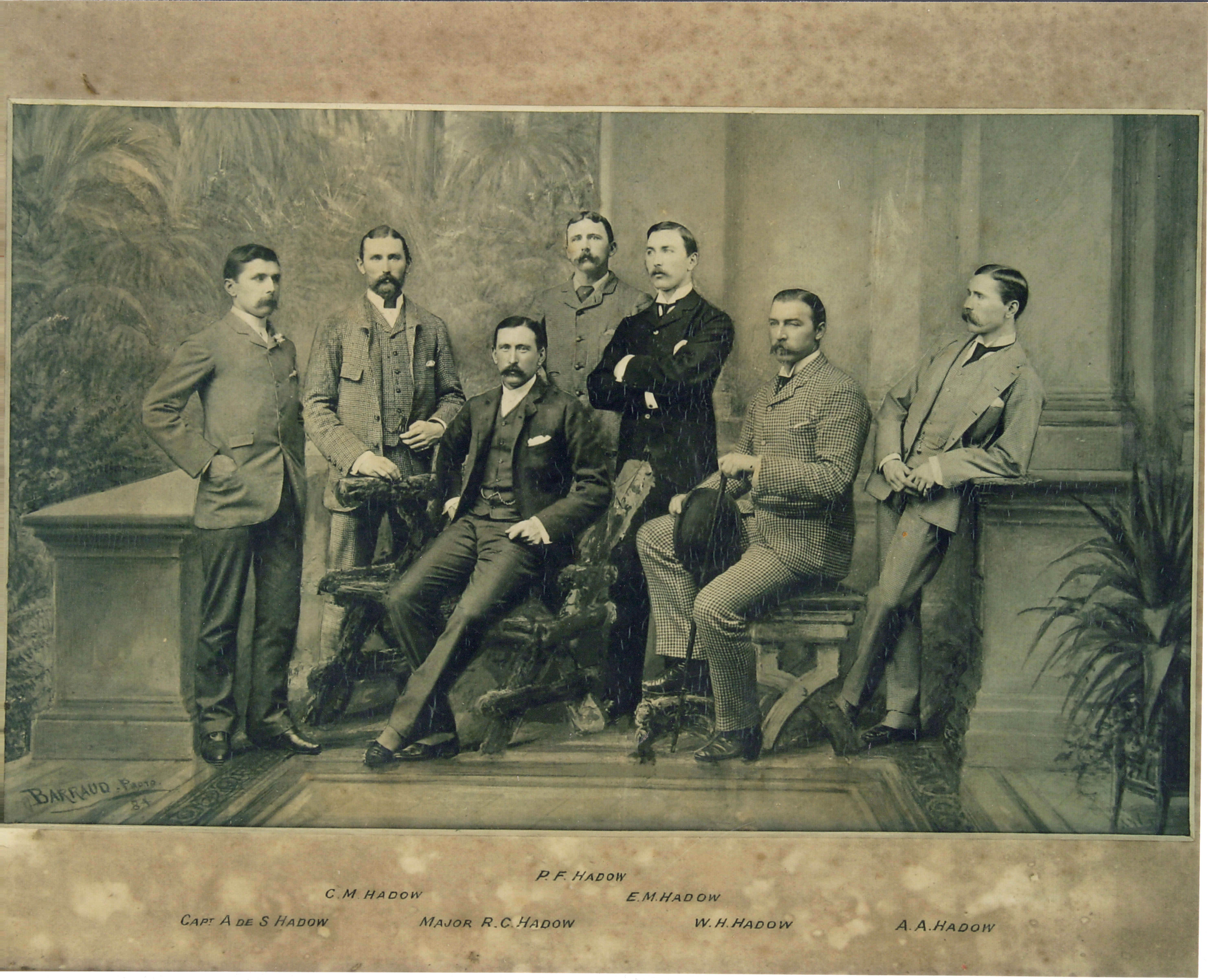 Harrow Hadows. P.F. Hadow center. Hadow family collection.